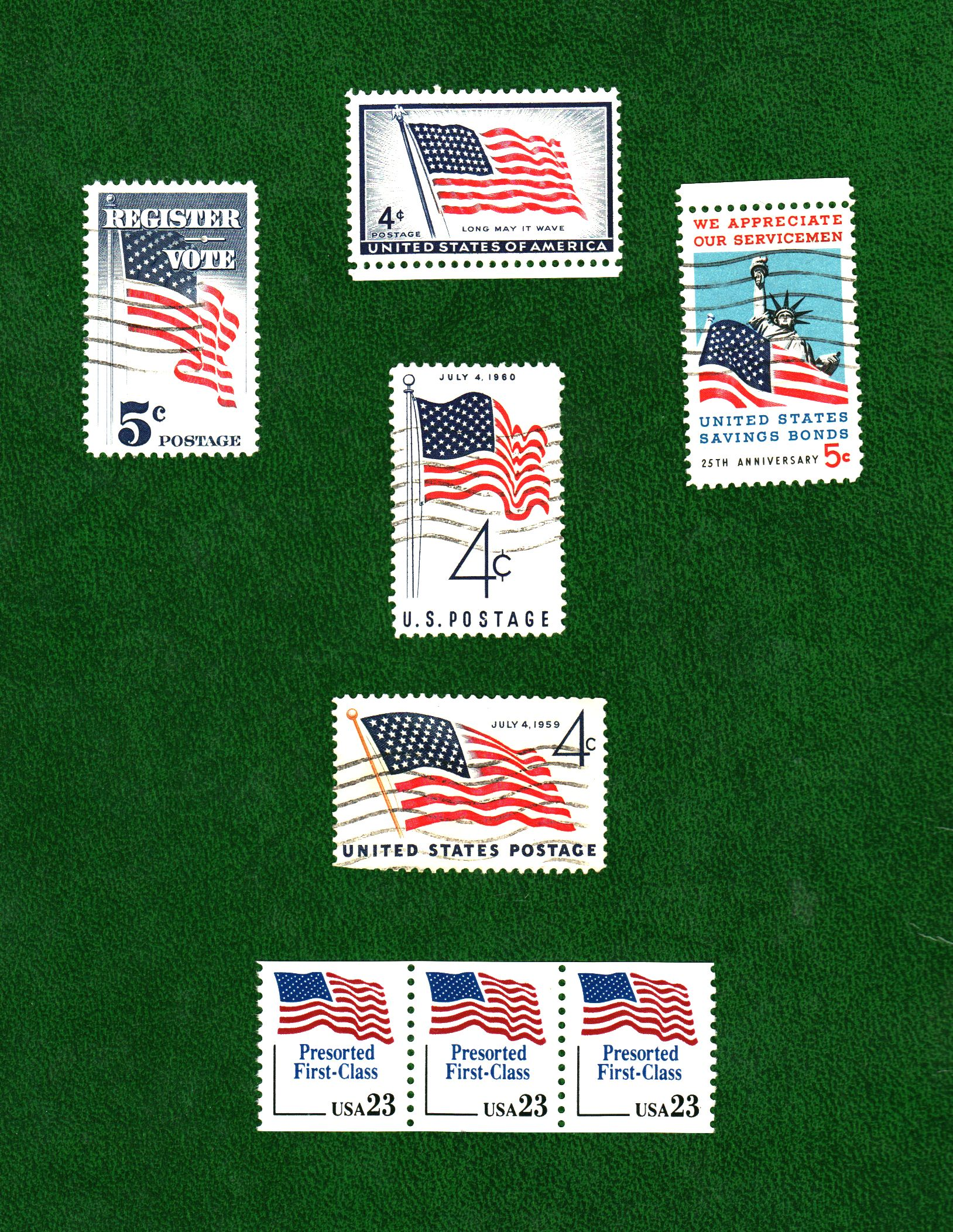 US_Flags_green.jpg